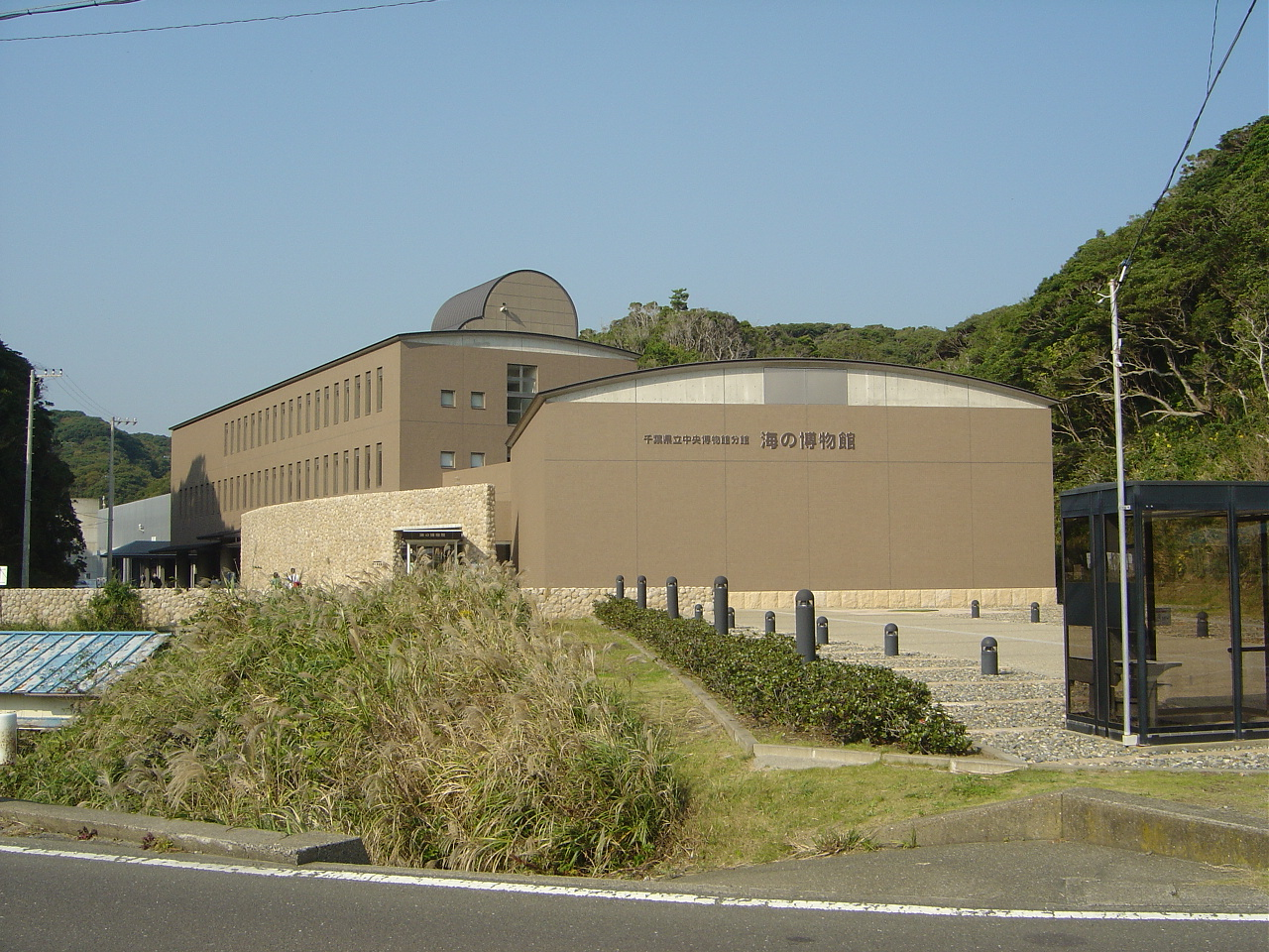 Coastal Branch of Natural History Museum and Institute, Chiba.(Katsuura city)